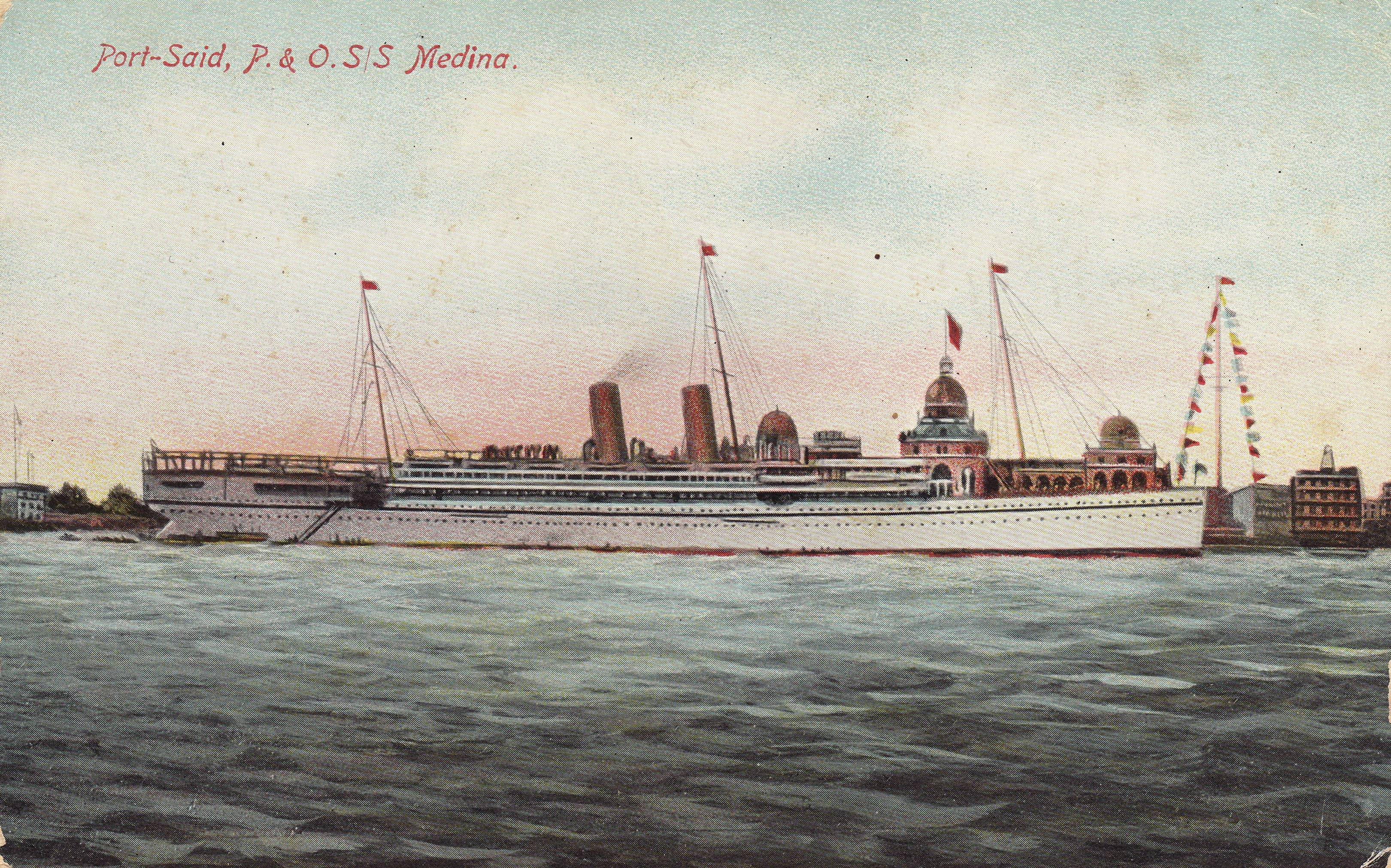 SS Medina, P&O ship in 1915 at Port Said, Egypt